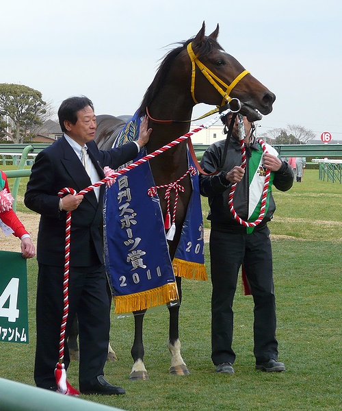 Cosmo-phantom20110105